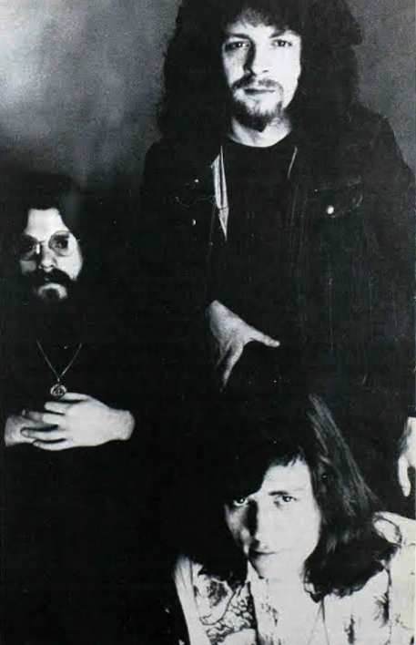 Publicity photo of Electric Light Orchestra/The Move, March 1973